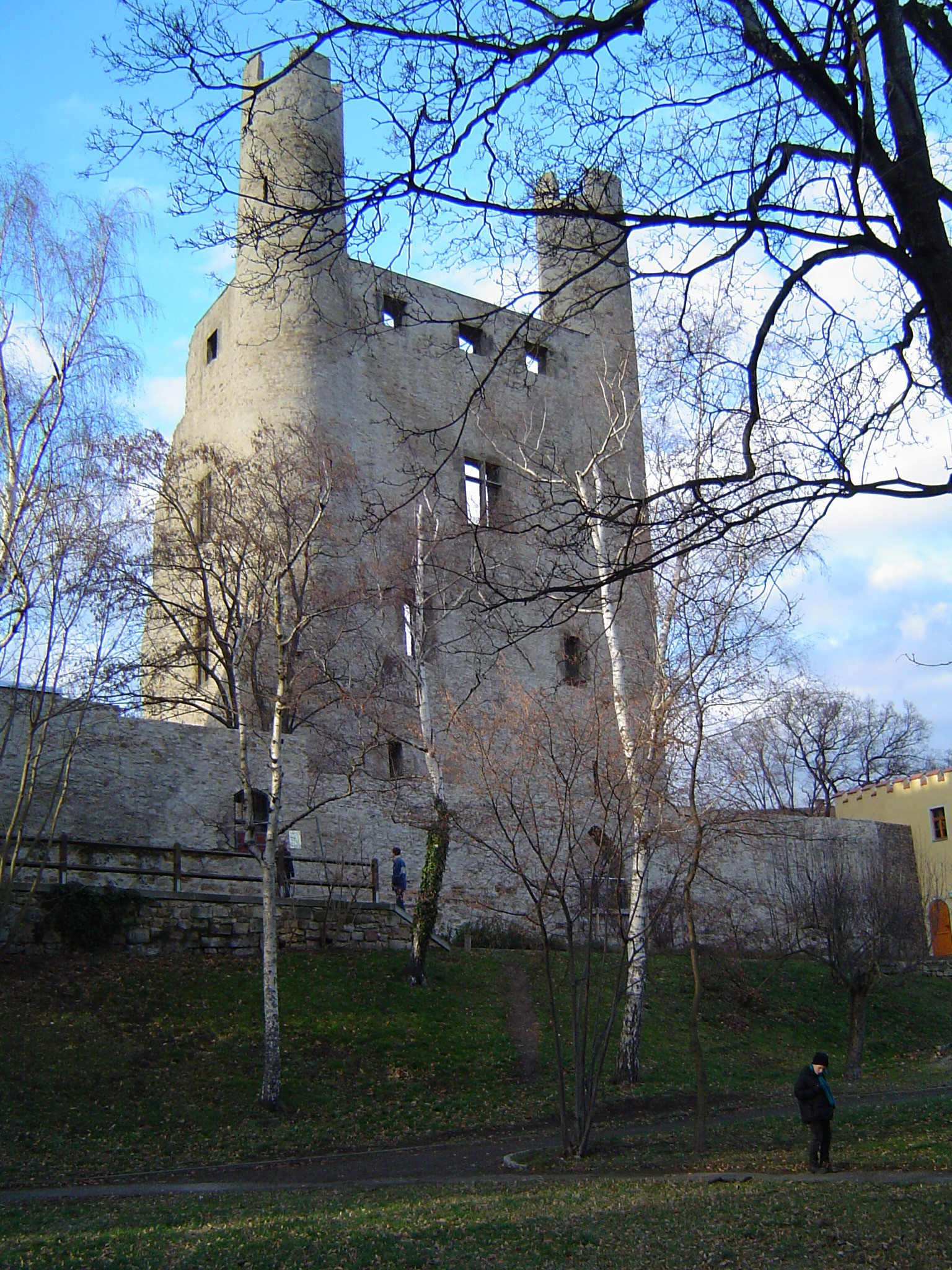 Castle Hoher Schwarm in Saalfeld (Germany)